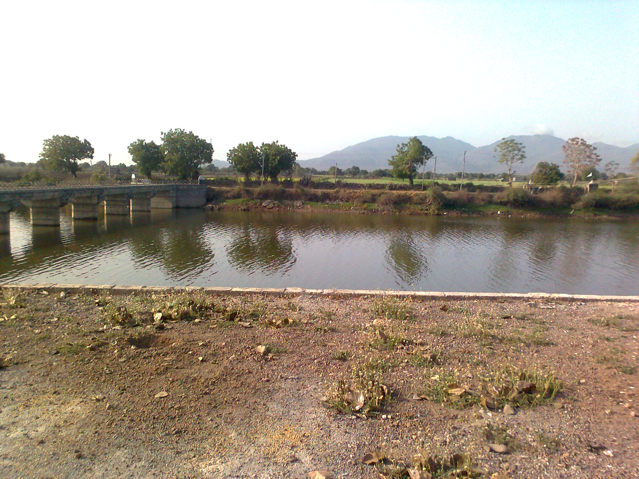 Indreshwar Mahadev Mandir - Bhanvad